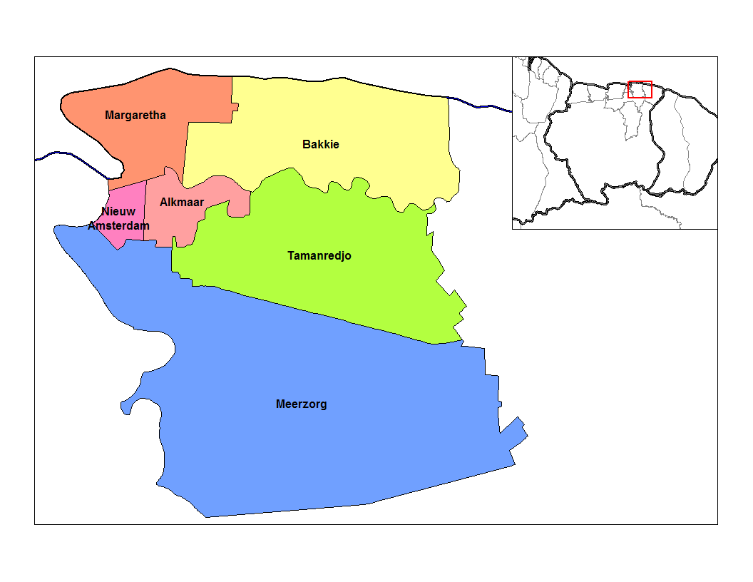 Map of the resorts of the Commewijne district in Suriname. Created by Rarelibra 22:48, 27 December 2006 (UTC) for public domain use, using MapInfo Professional v8.5 and various mapping resources. Rarelibra 22:48, 27 December 2006 (UTC)